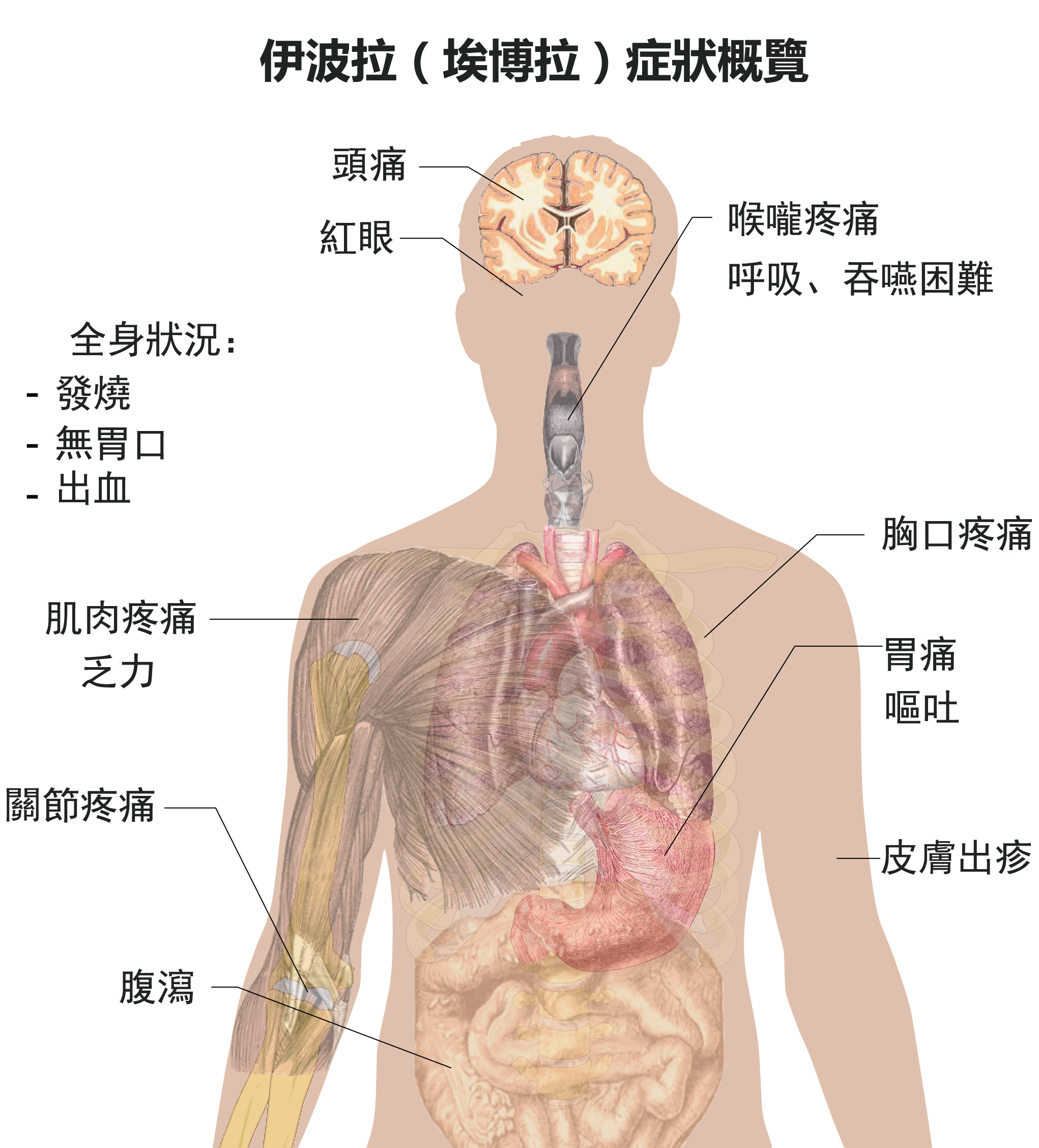 Symptoms of Ebola (a Chinese version).中文（香港）: 伊波拉出血熱病徵概覽。